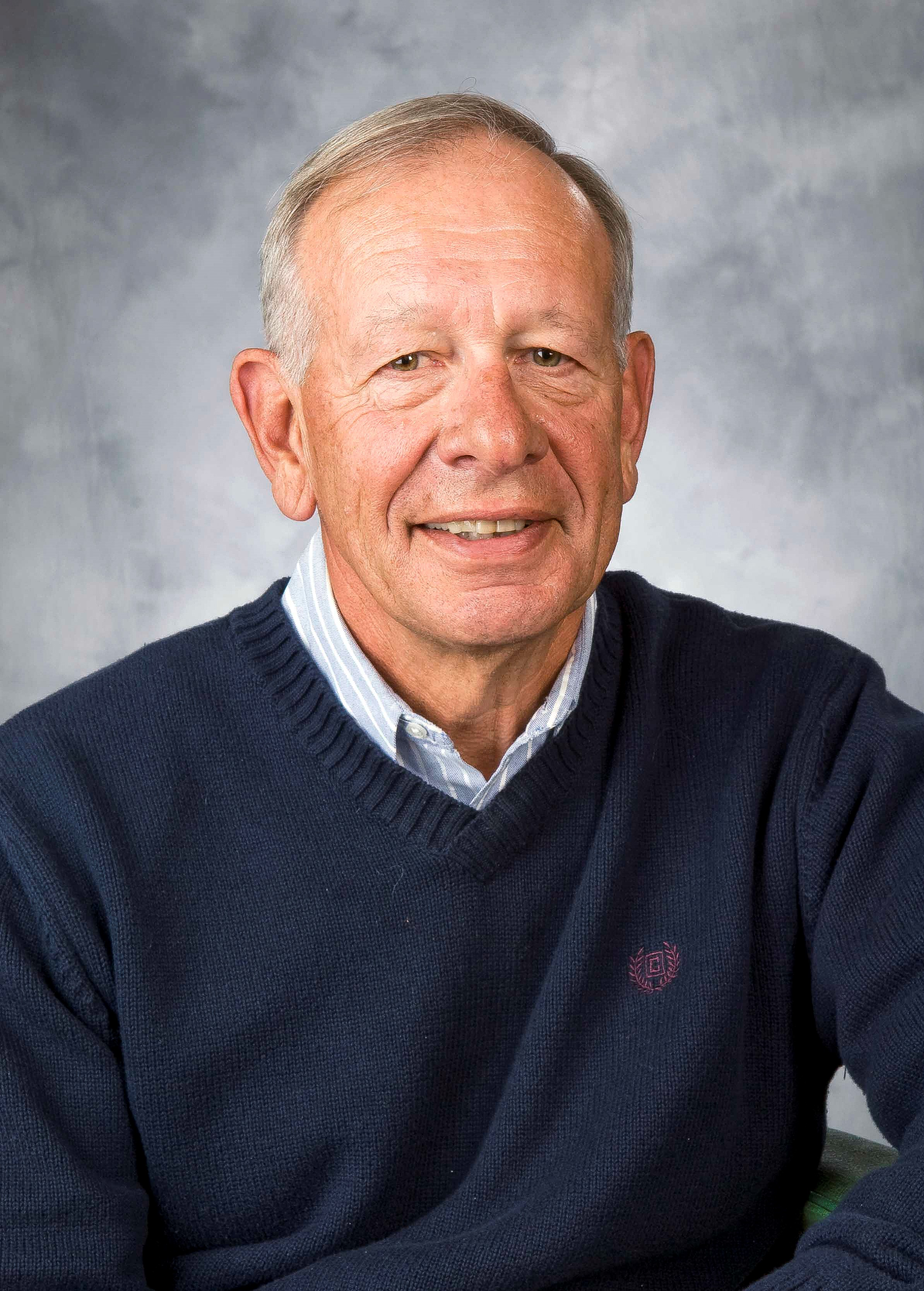 Photo of Dr, Larry Druffel sent to me to be included in his wikipedia page